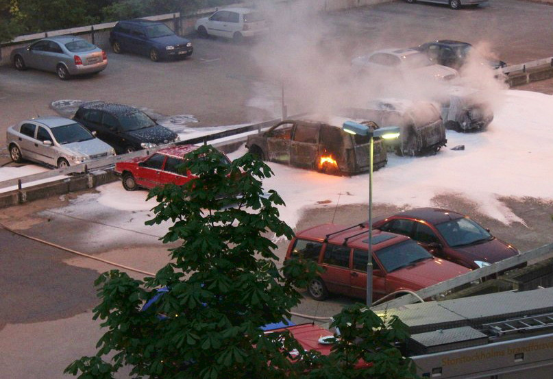 Second day of the Stockholm Husby riots. The picture depicts 3 burned out cars in a Husby parking lot.